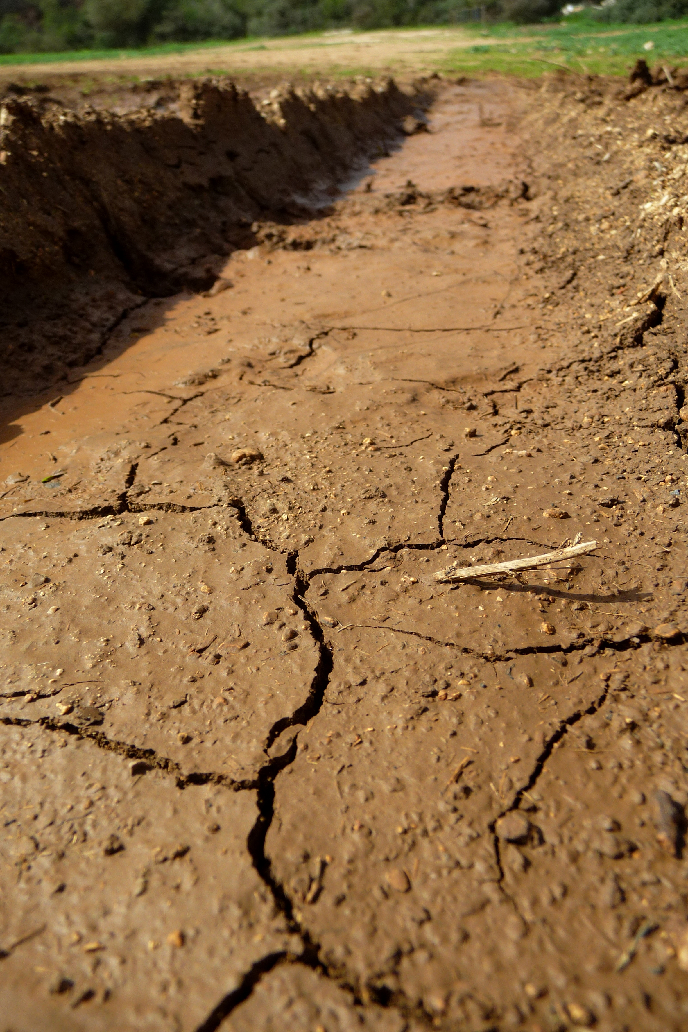 Carmel Park